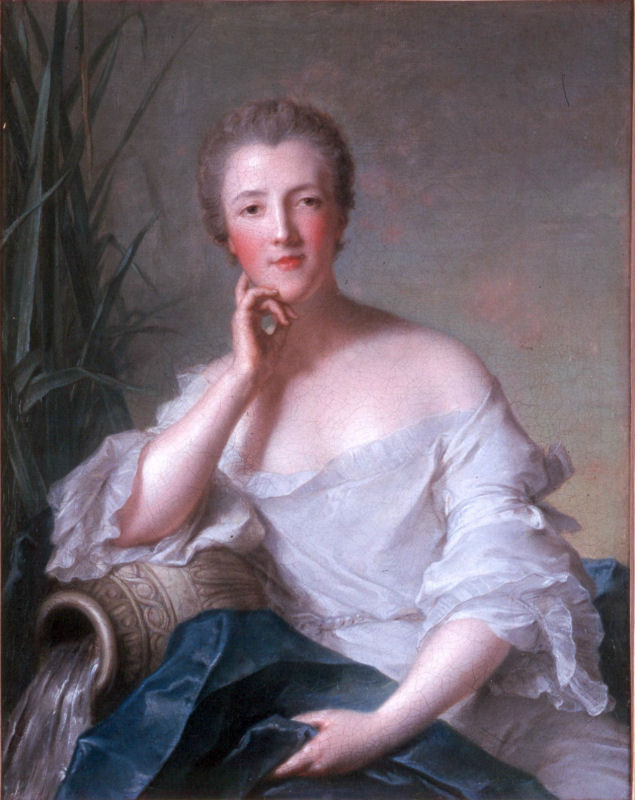 Portrait of Marquise de Boufflers (1711-1787)